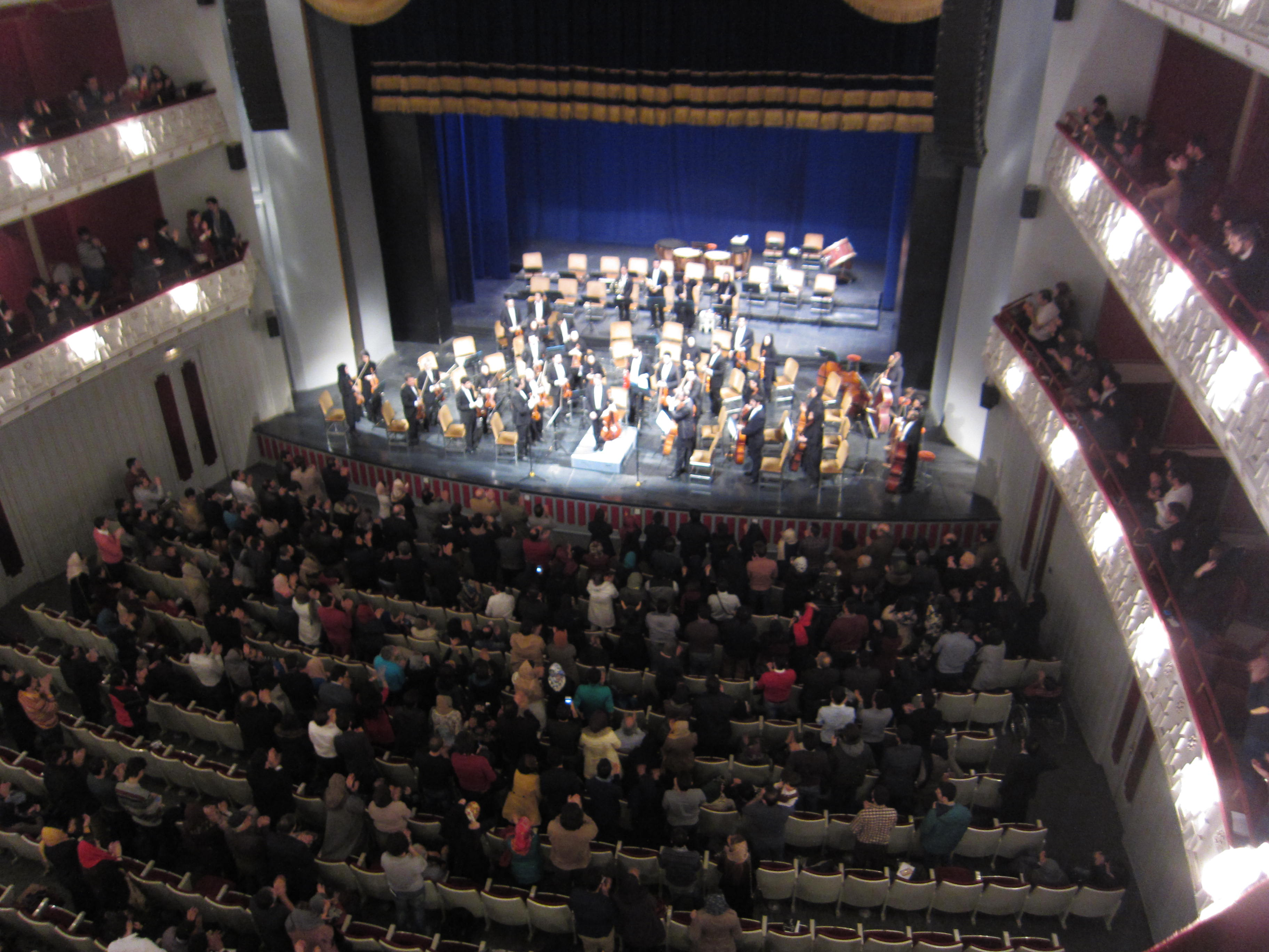 Tehran Symphony Orchestra in Vahdat Hall